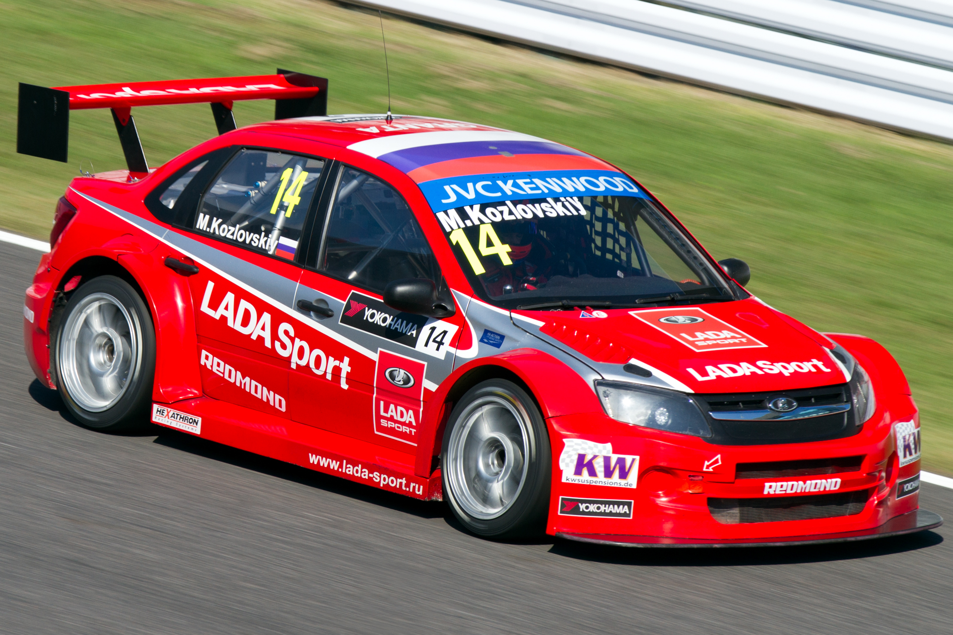 World Touring Car Championship 2014 Race of Japan: Mikhail Kozlovskiy (Lada Sport)